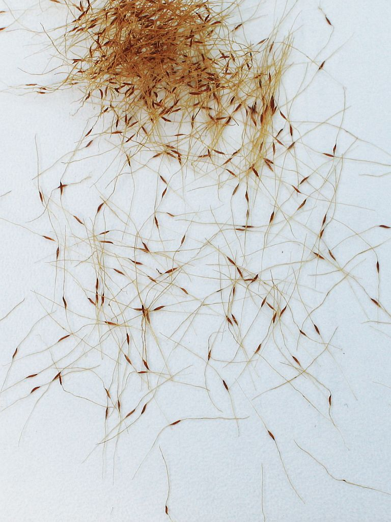 Pitcairnia sceptrigera (seeds) in cultivation at the Botanical Garden of Heidelberg, Germany.